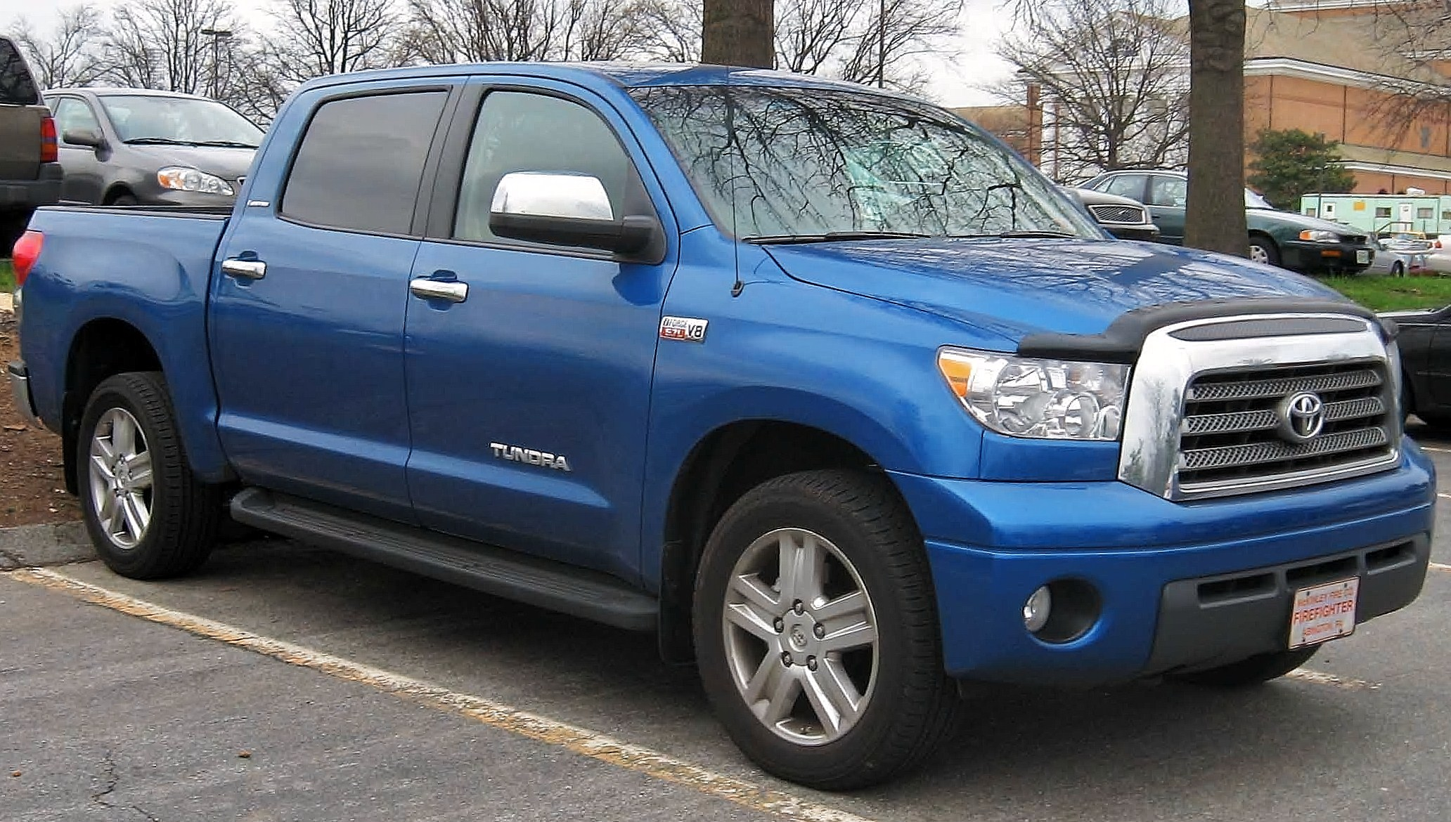 2007-2008 Toyota Tundra photographed in College Park, Maryland, USA.